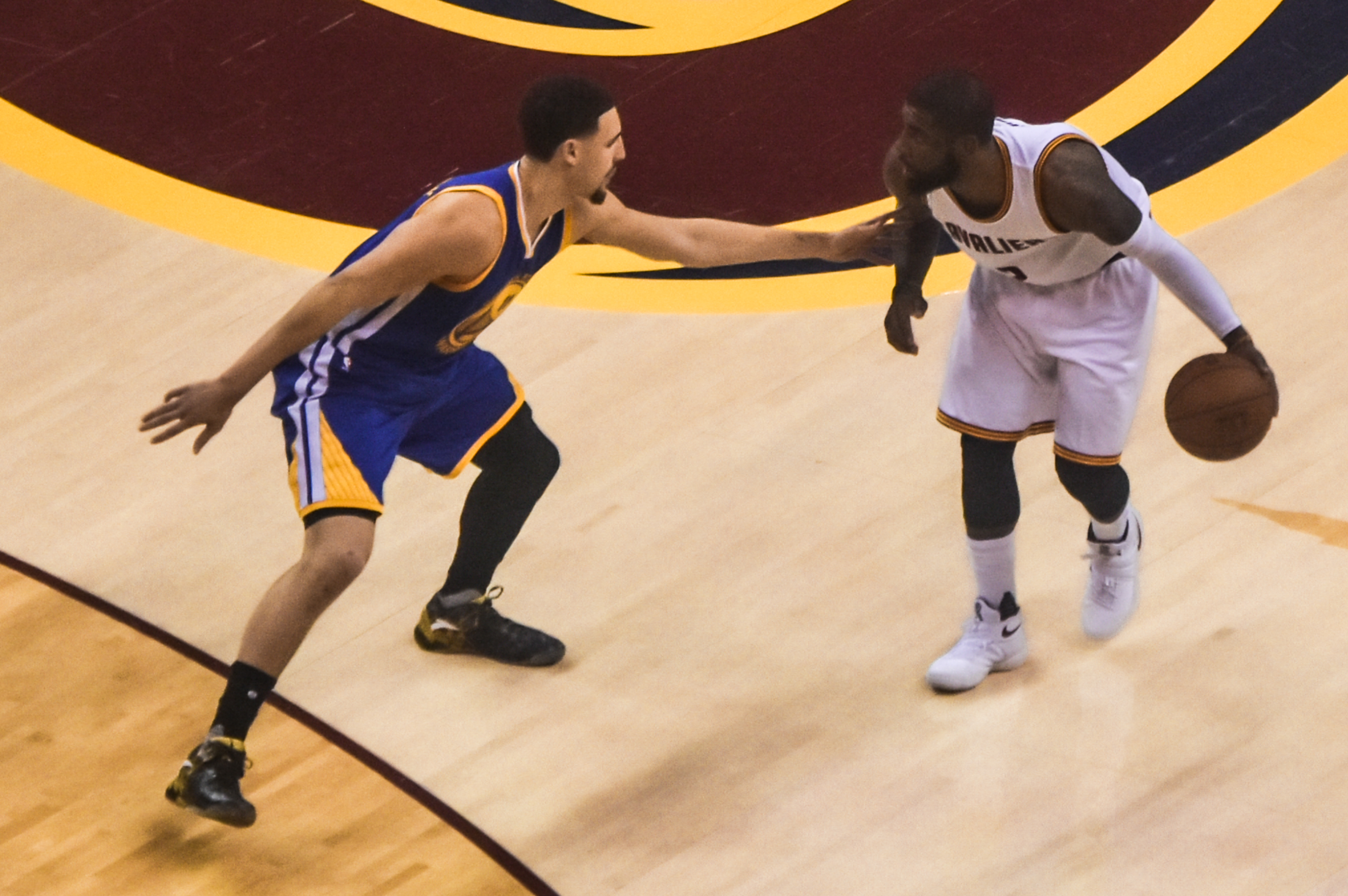 Klay Thompson (left) and Kyrie Irving during game 6 of the 2016 NBA Finals between Golden State Warriors and Cleveland Cavaliers